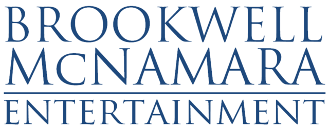 Brookwell McNamara Entertainment logo